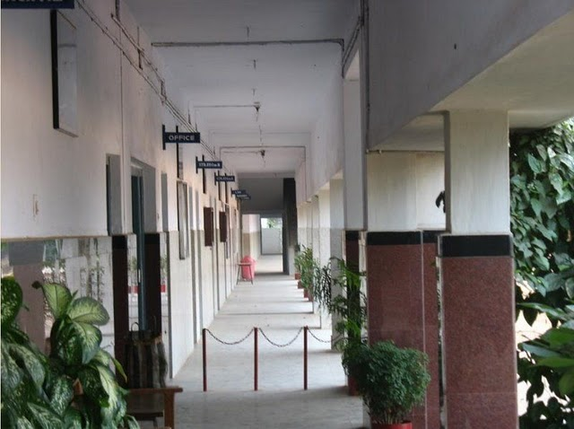 Desouza's English Medium School, Rourkela